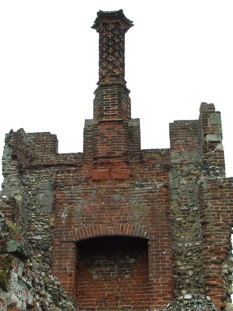 Ornate chimney Ornate chimney Framlingham Castle Framlingham Suffolk.